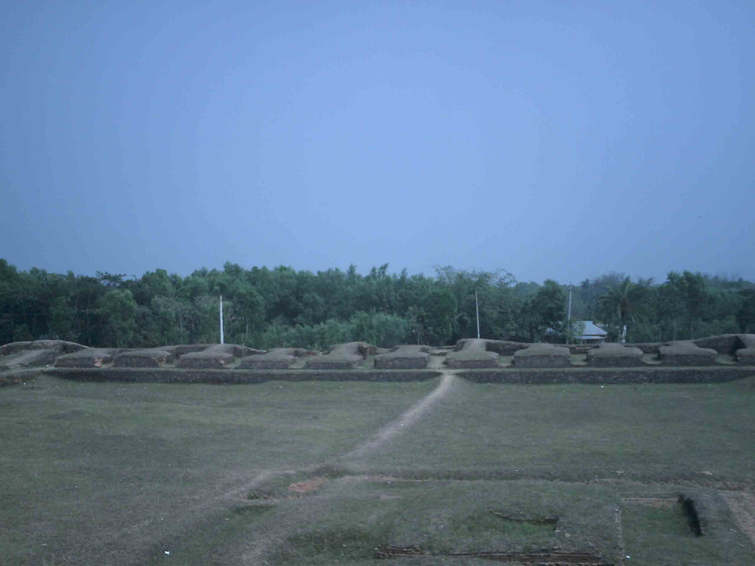 Location: Comilla, Bangladesh